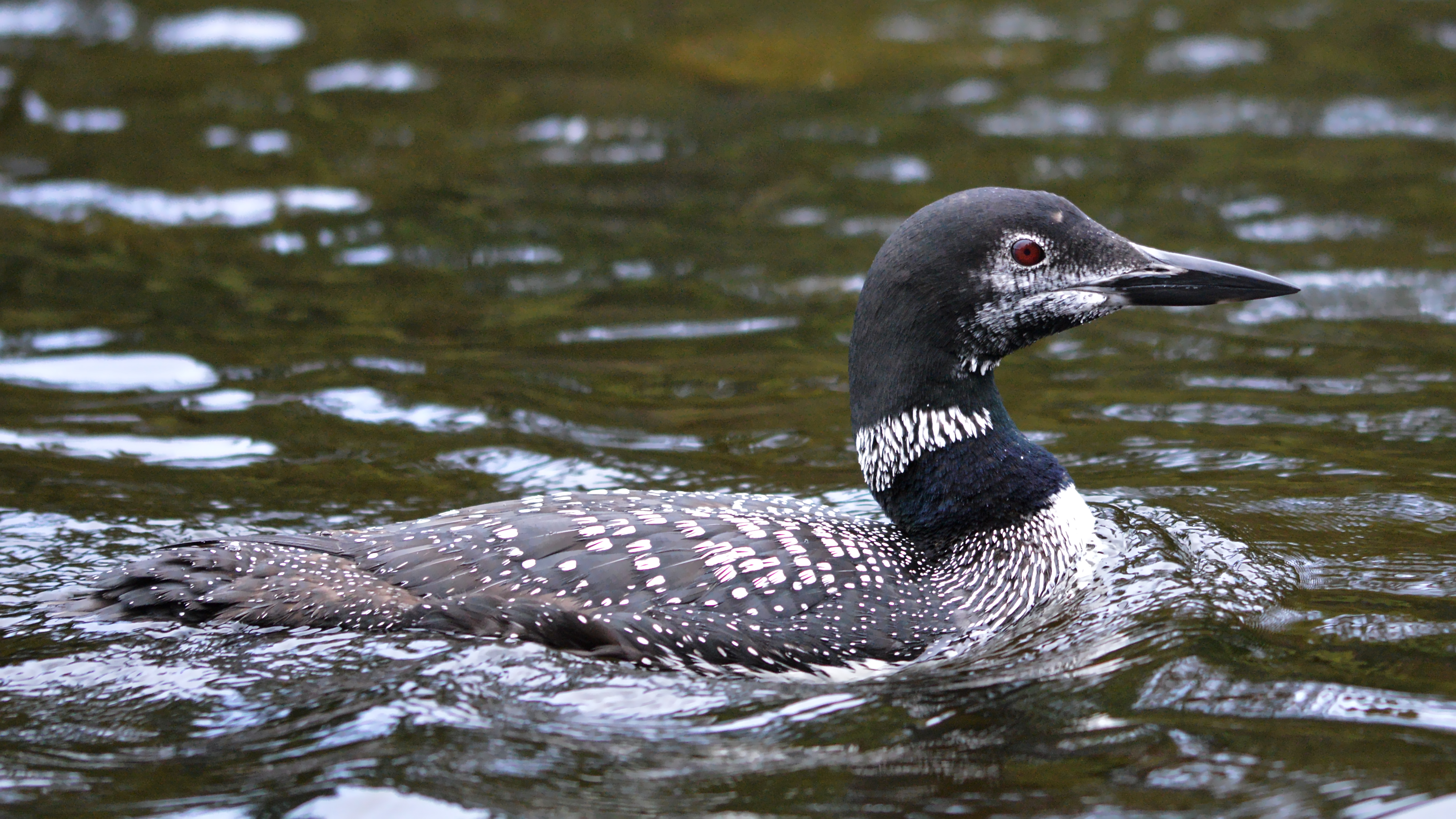 Great Northern Loon (Gavia immer) in Algonquin Provincial Park, Ontario, Canada.